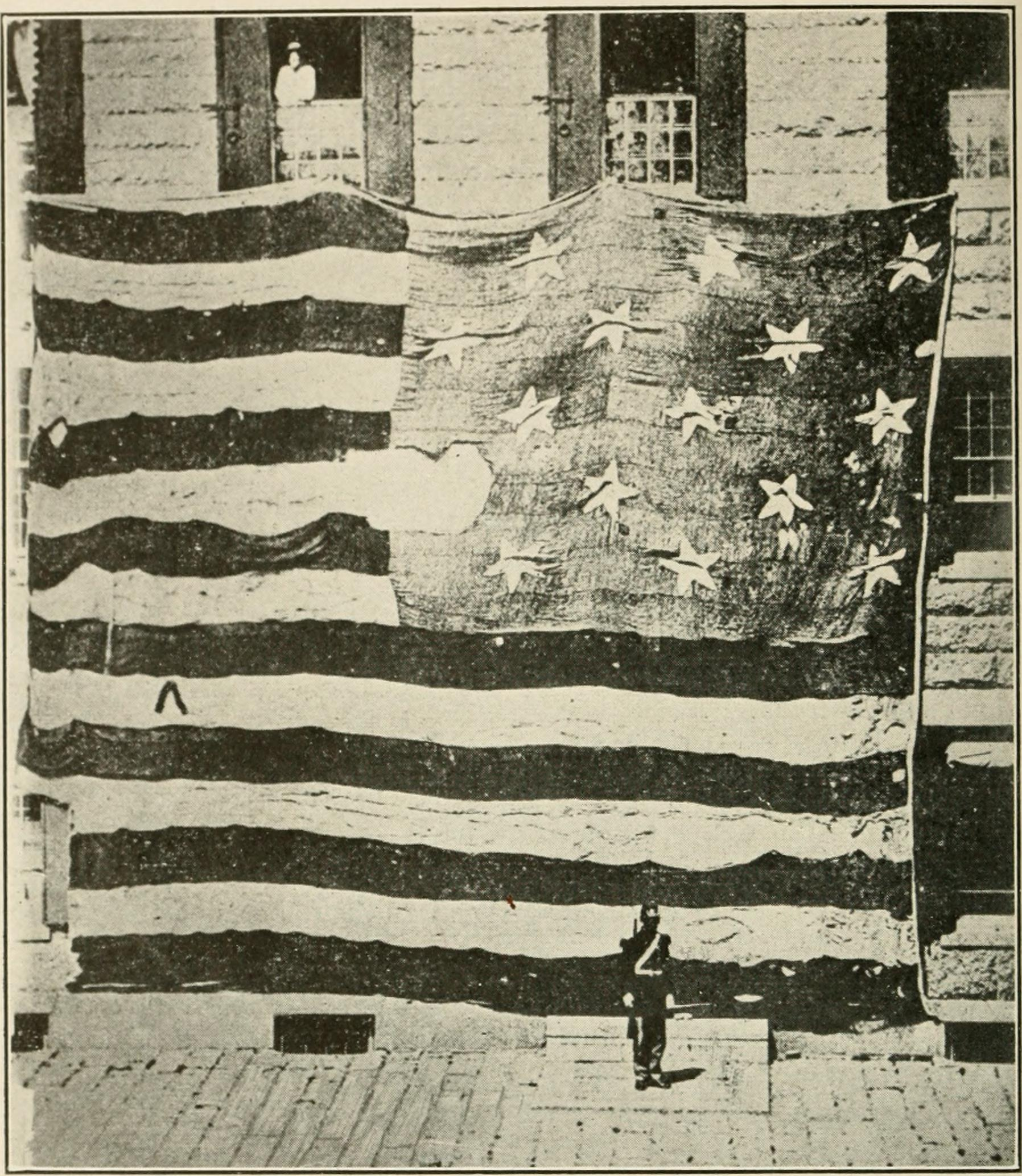 Flag that floated over Fort McHenry in 1814.